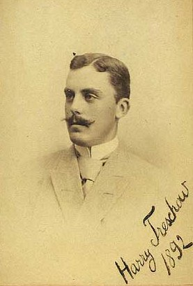 Georg Harry Ryan Treschow (1872-1926), Danish diplomat and estate owner